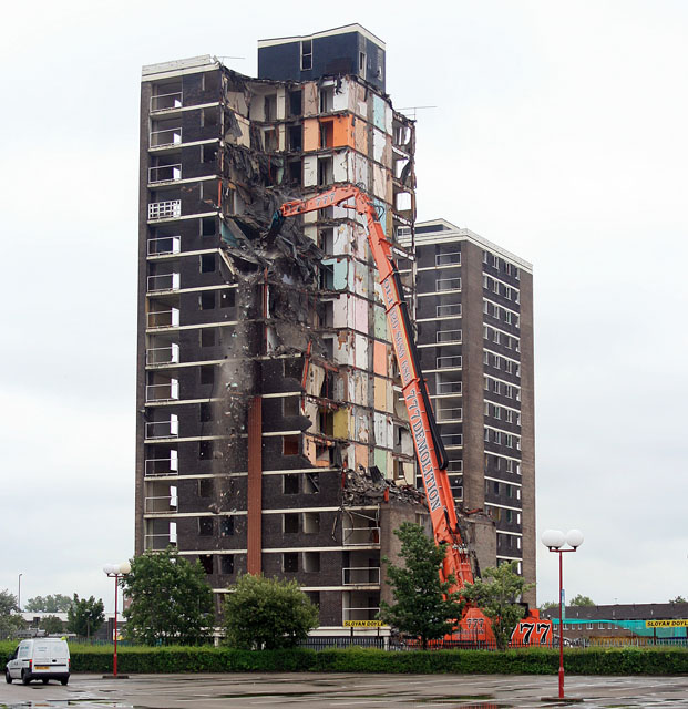 Demolition of flats, Croxteth, Liverpool In an outer suburb of Liverpool with an unfortunate reputation for social problems, the landscape is about to change as high-rise blocks are replaced with more conventional housing.